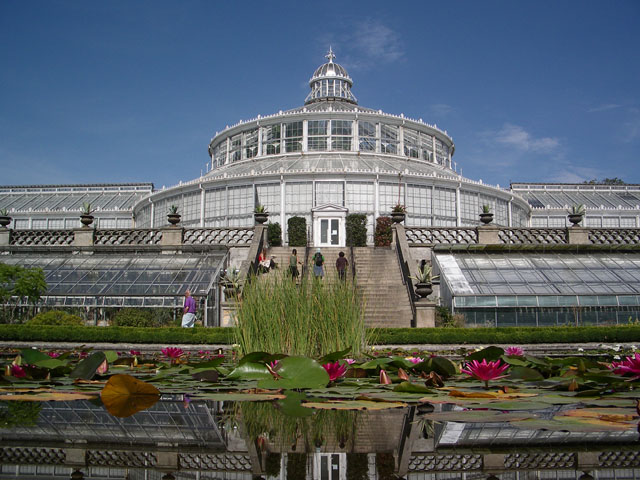 University of Copenhagen Botanical Garden